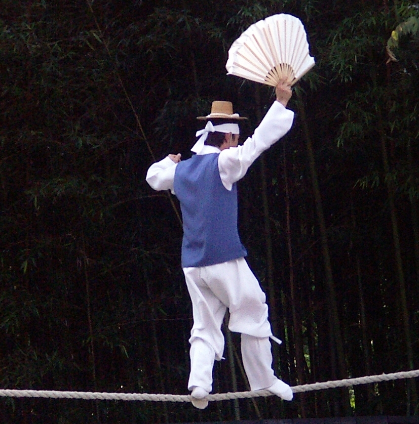 The performance of “Jultagi” in Jeonju, South Korea